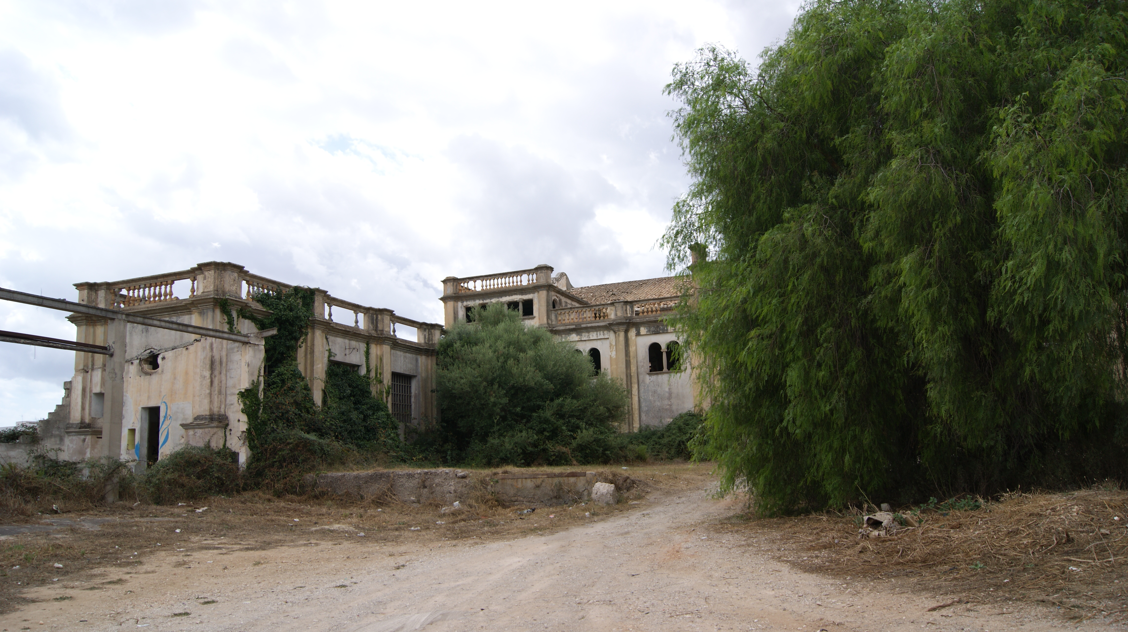 Former Celler cooperation in Fellanitx, Mallorca.